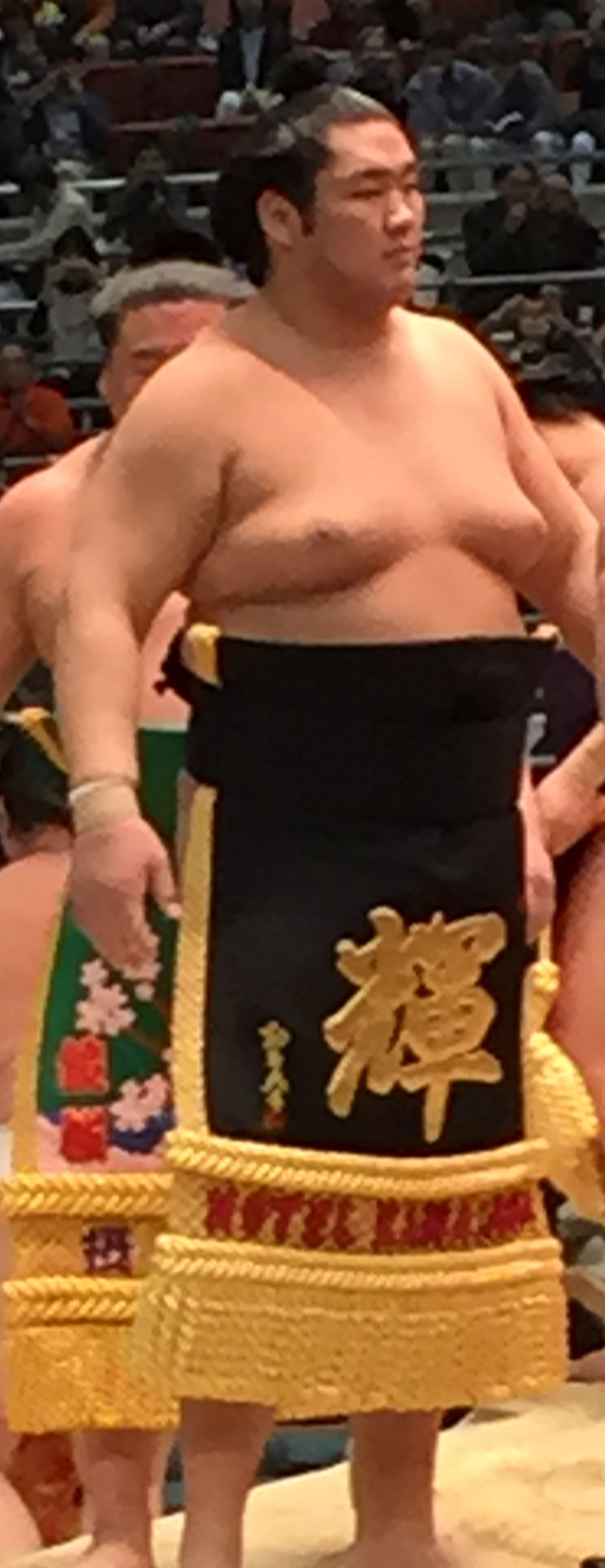 Taken at Osaka tournament 2015